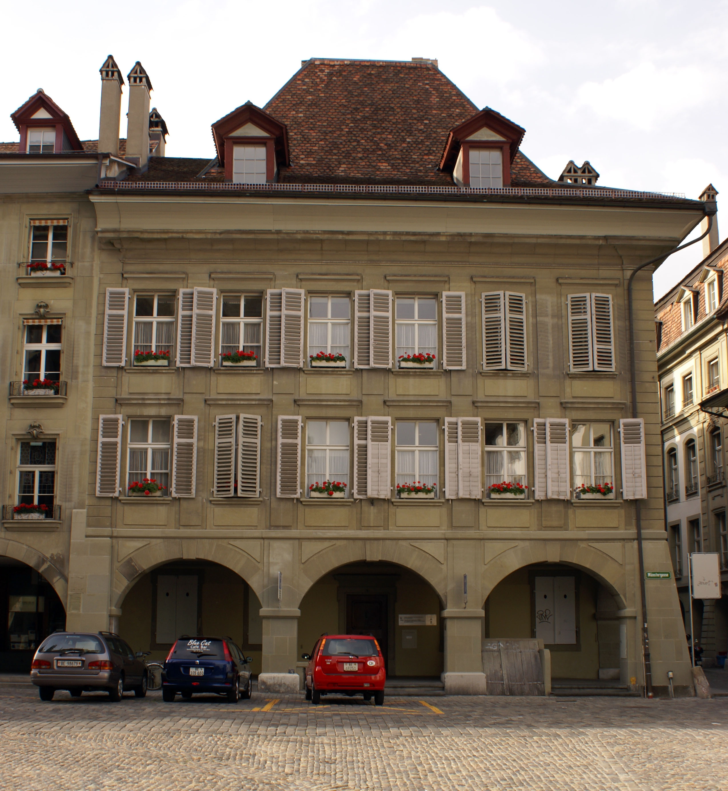 Münstergasse 2, Berne, Switzerland. Diessbachsches Sässhaus (1718), now seat of the cantonal Department of Justice and Police.